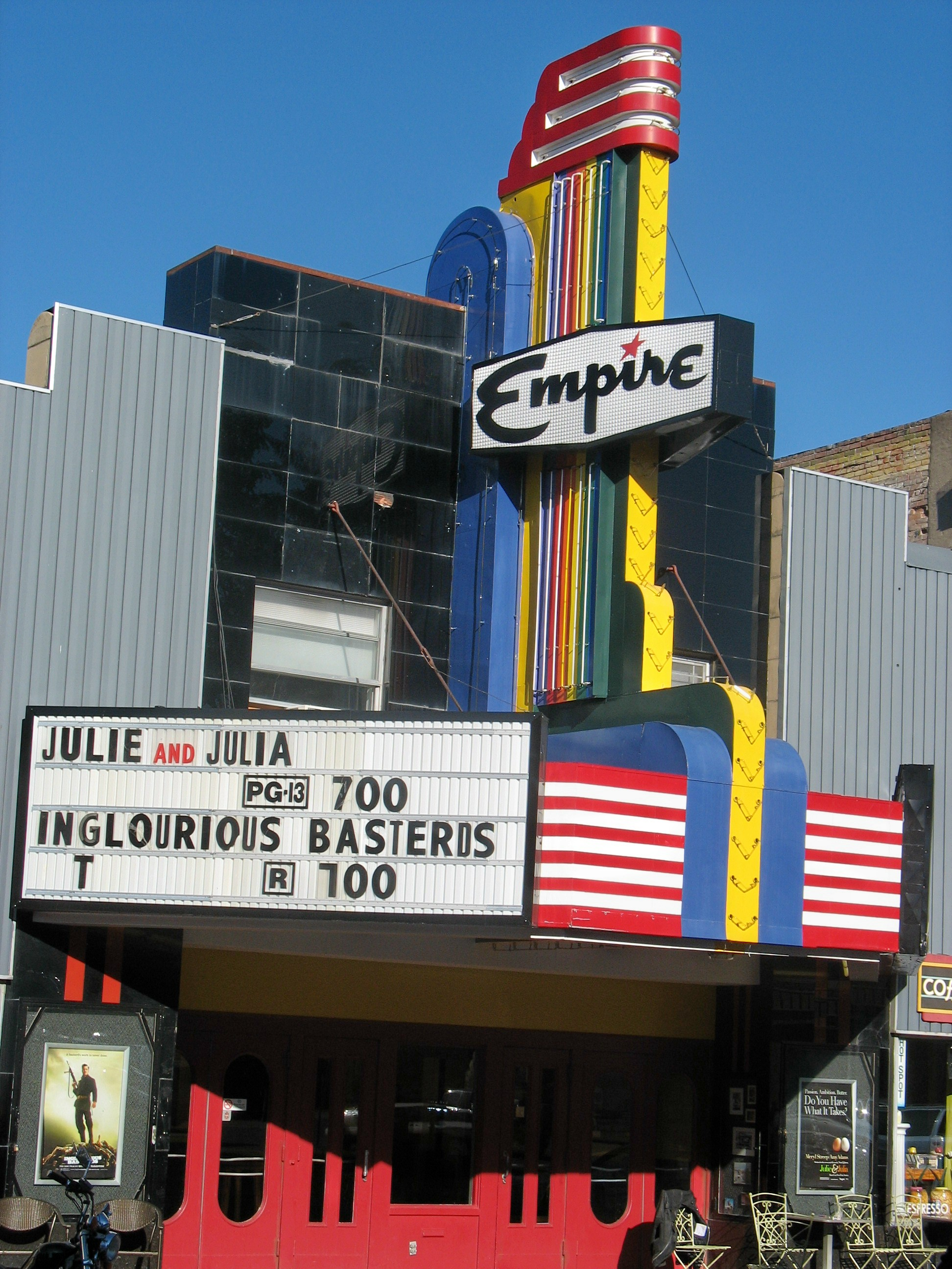 Commercial District, Roughly bounded by Park, C, Clark, 3rd, and Callendar Streets in Livingston, Montana